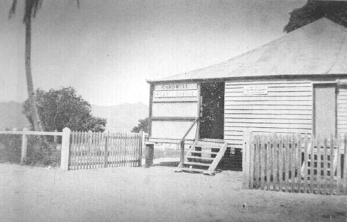 Cardwell Post Office on the corner of Balliol and Victoria Streets, Cardwell, North Queensland.